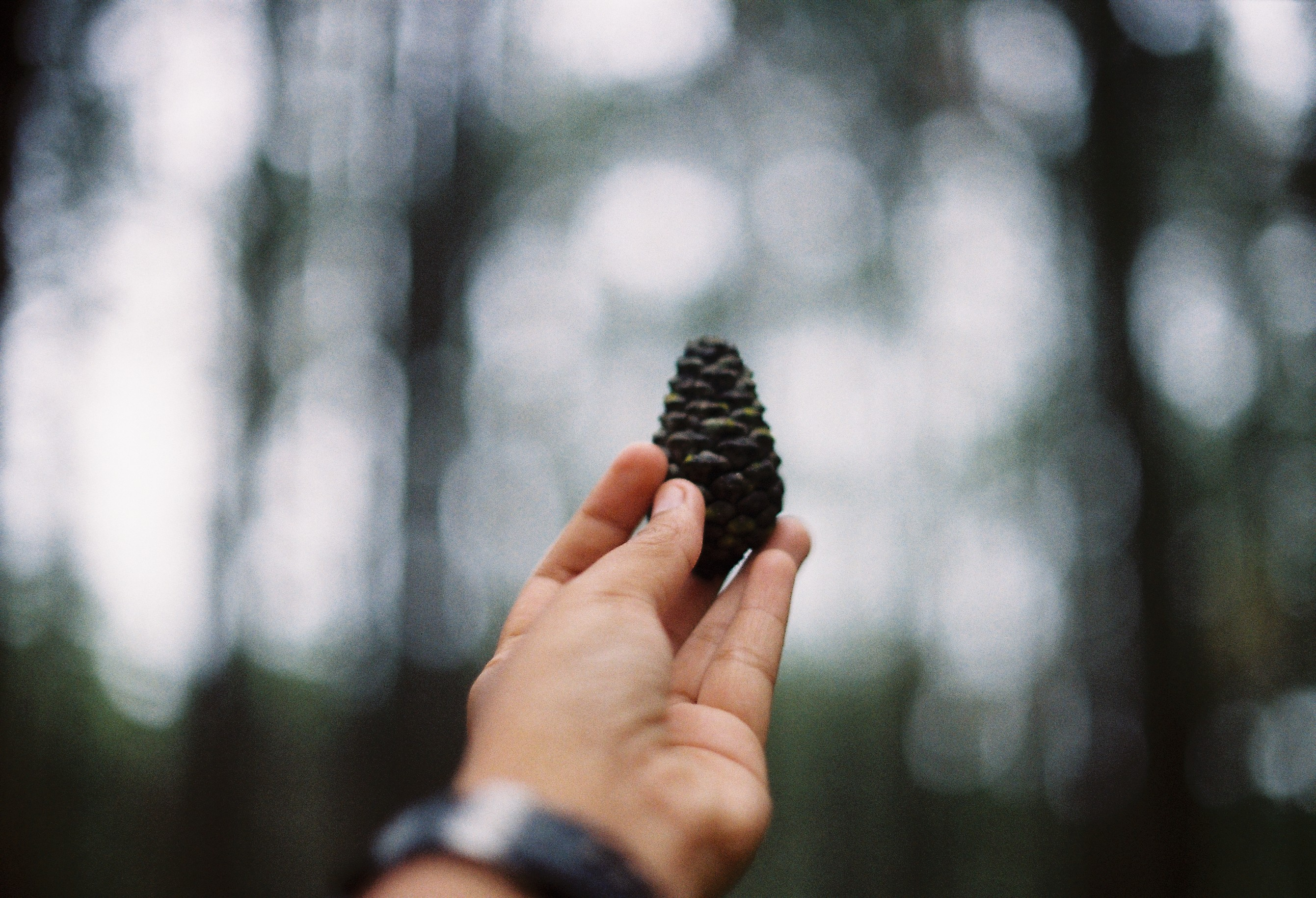 Hot, Thailand